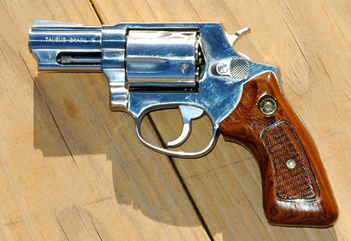 Photo © by Jeff Dean